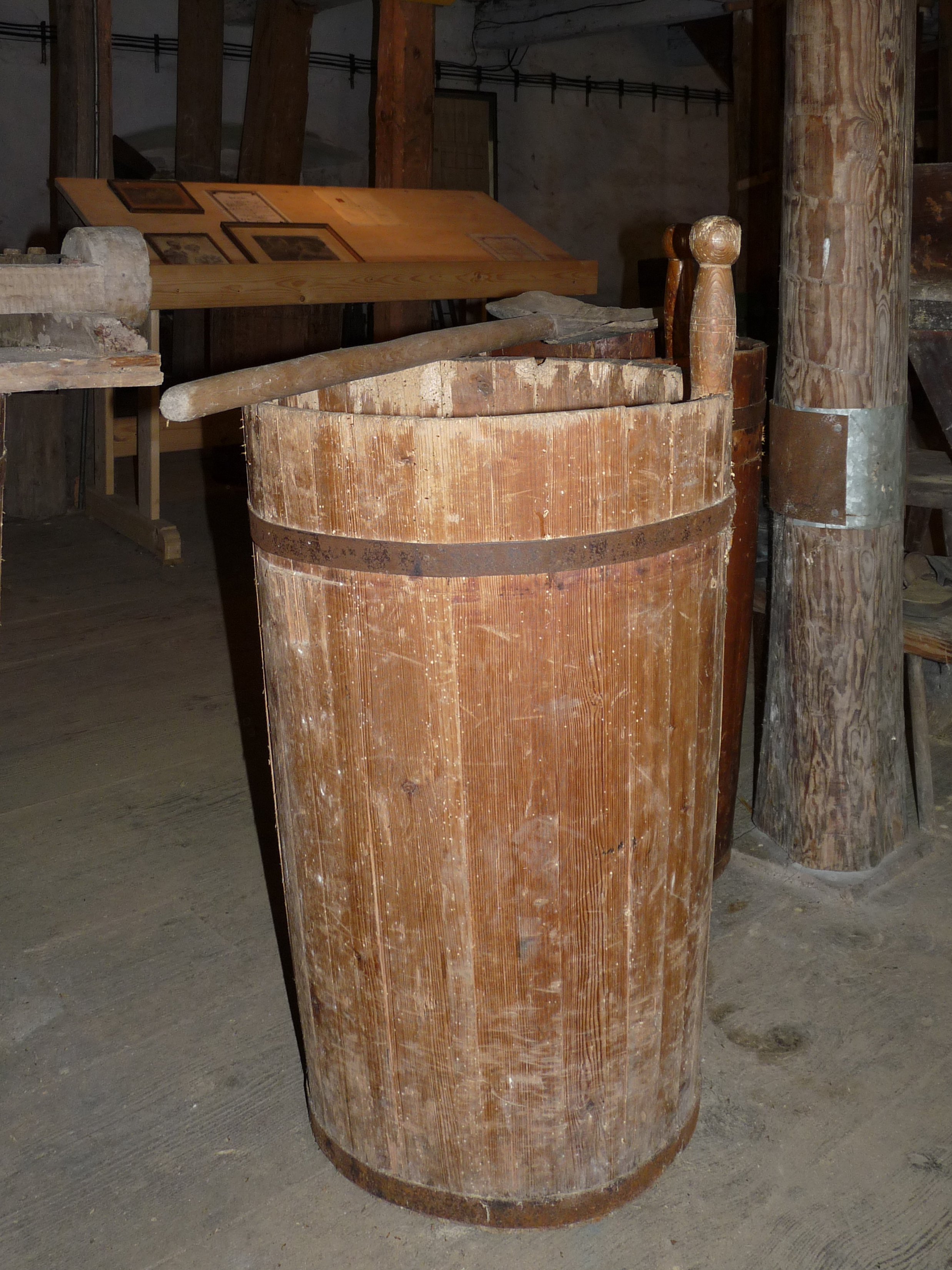 Rosenauerův mlýn (Rosenauer mill) in Velké Hydčice near Sušice, Horažďovice District, Czech Republic.